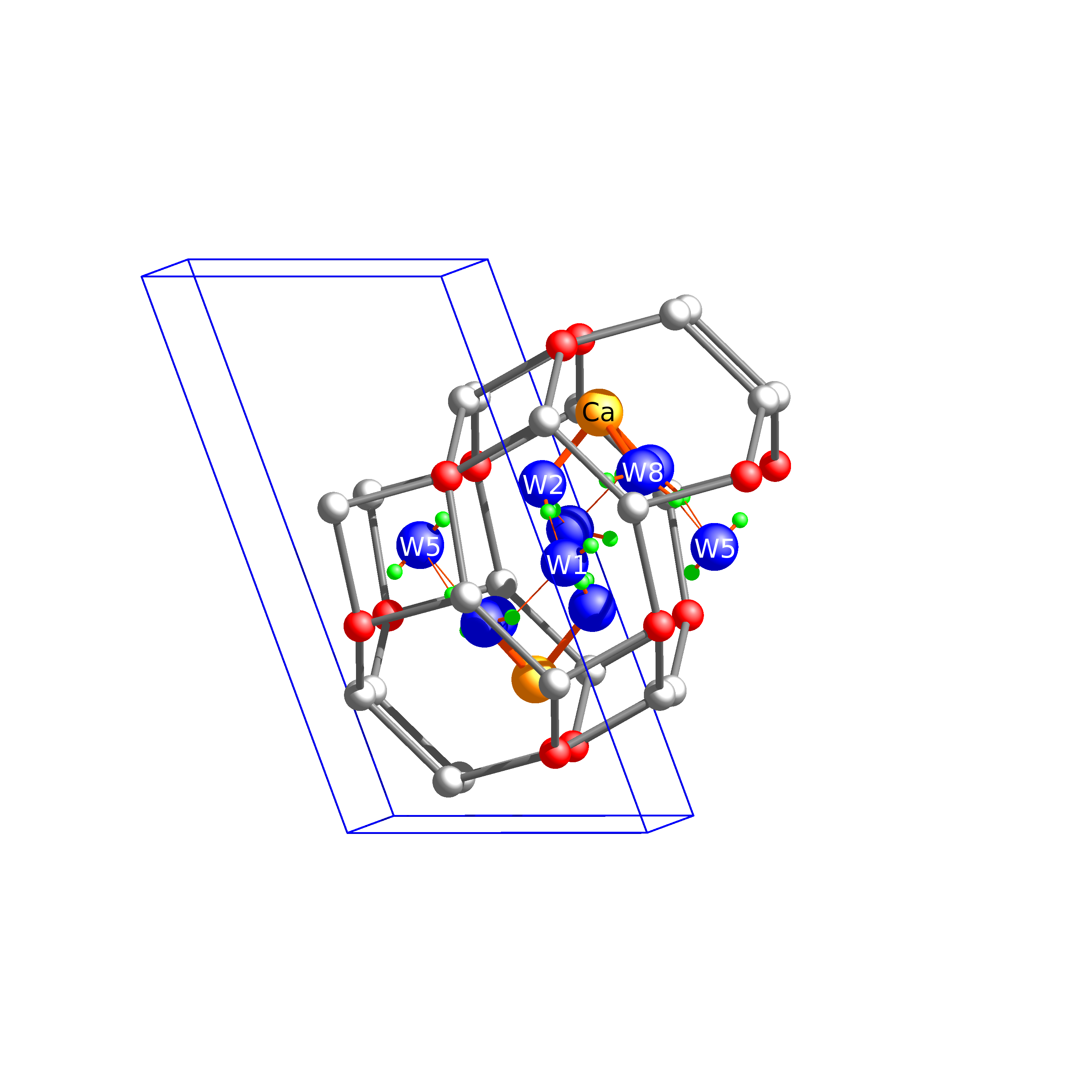 Laumontite structure viewed down the b-axis on one cavern of the alumosilicate framework. Data from Kenny Stahl, Gilberto Artioli, 1993: A neutron powder diffraction study of fully deuterated laumontite. European Journal of Mineralogy 5/5, pp 851–856; Calculation of rendering input data Larry W. Finger, Martin Kroeker, and Brian H. Toby, DRAWxtl, an open-source computer program to produce crystal-structure drawings, J. Applied Crystallography V40, pp. 188-192, 2007 Rendering POVRAY